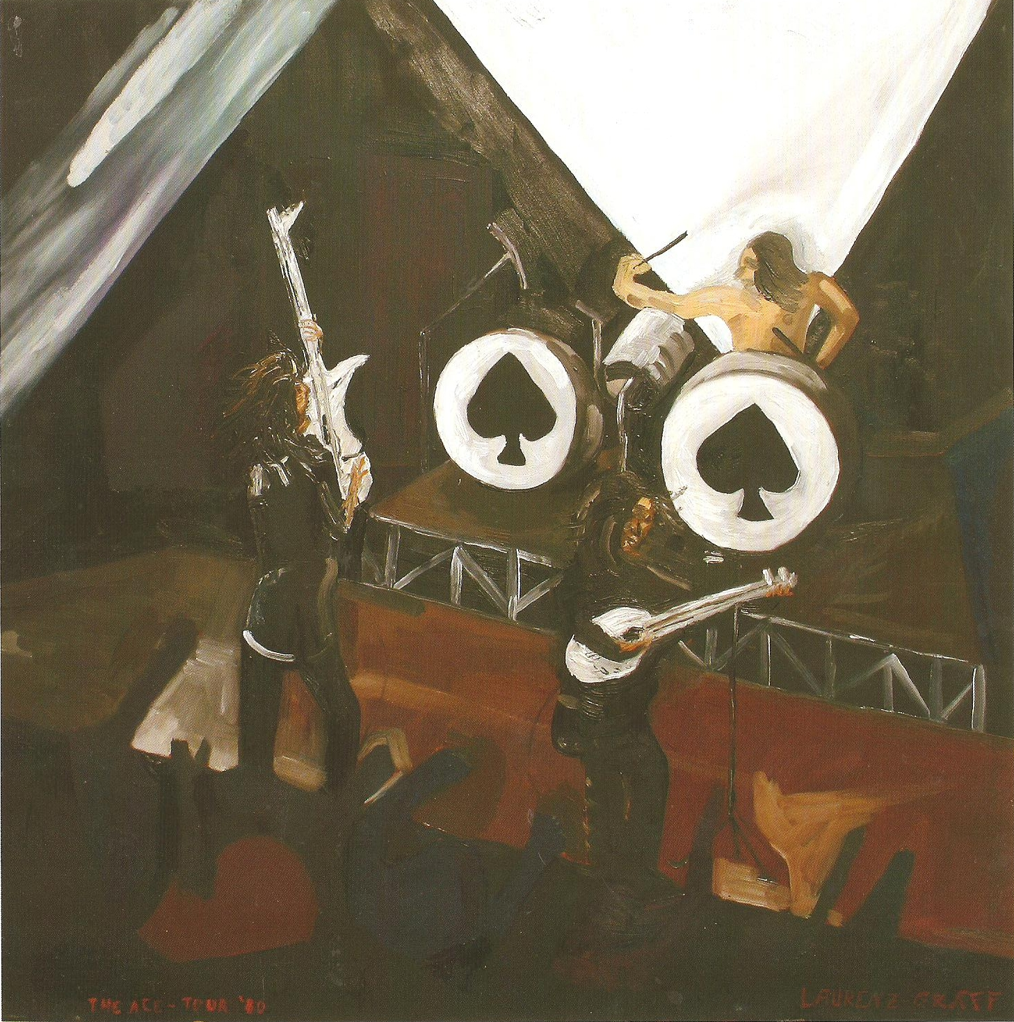 Matthias Laurenz Gräff. "Motörhead. No Sleep ’til Hammersmith (The Ace Tour)"